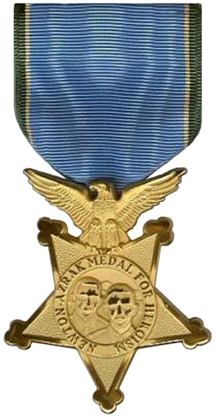 Border Patrol Newton/Azrak Medal